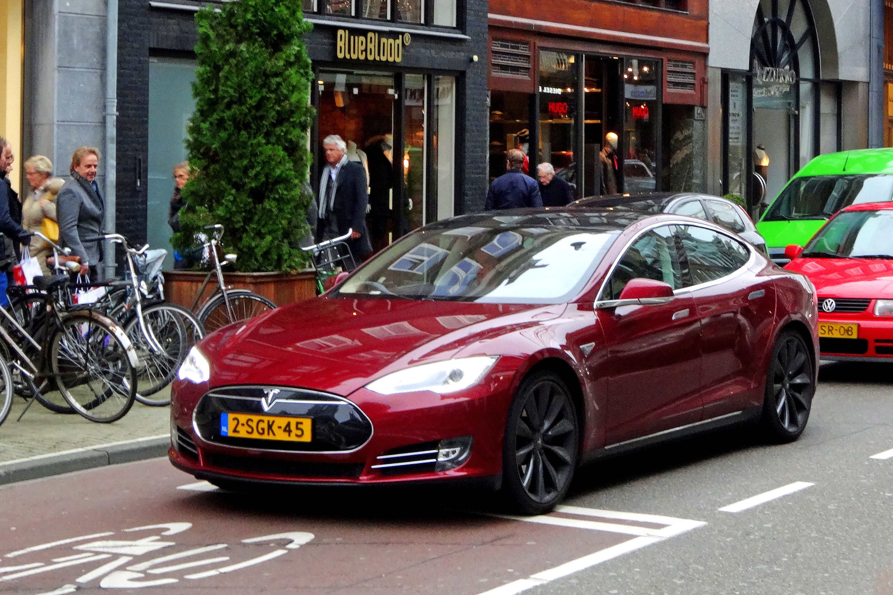 Tesla Model S in PC Hooftstraat Amsterdam, the Netherlands